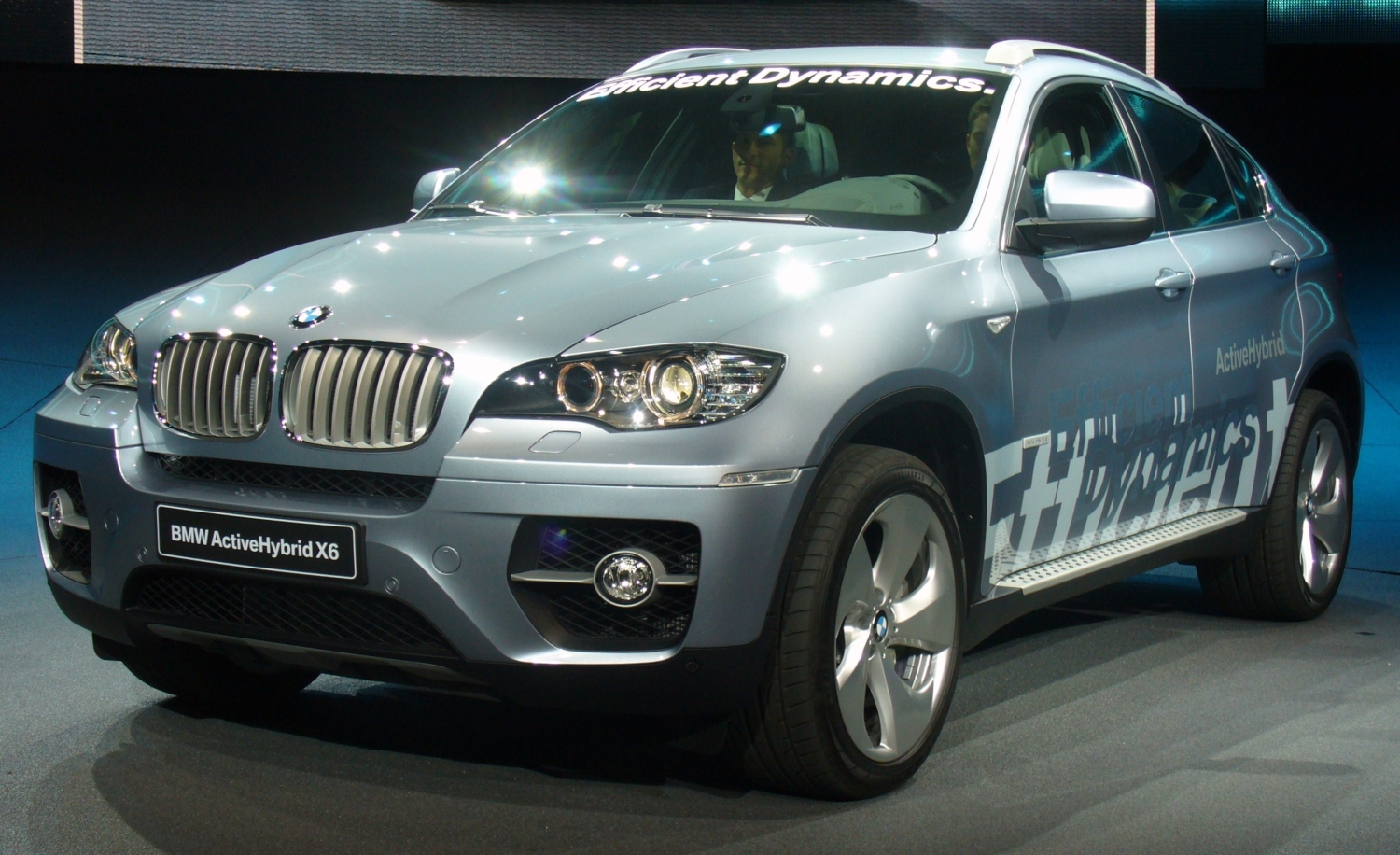 BMW ActiveHybrid X6